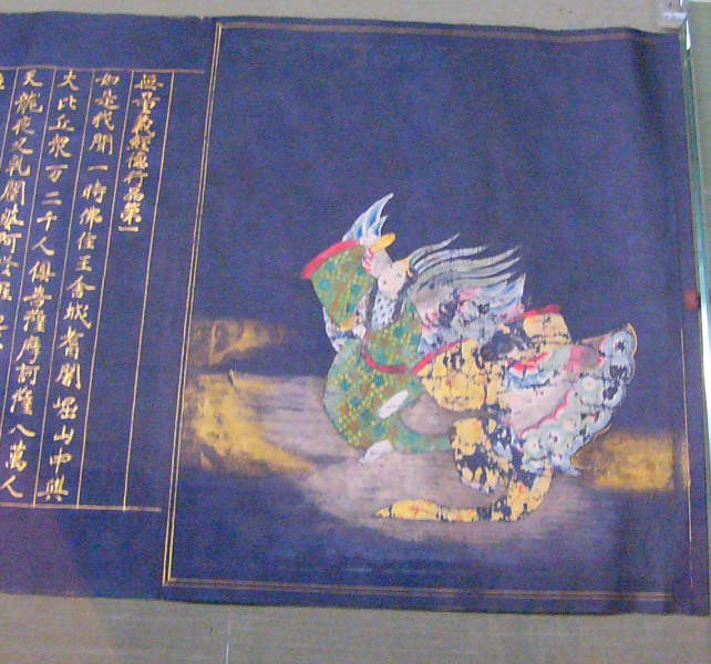 he Innumerable Meanings Sutra (Sanskrit Ananta-nirdesa Sutra) Opening, Gold, colour on blue paper, 13-14th century, Japan